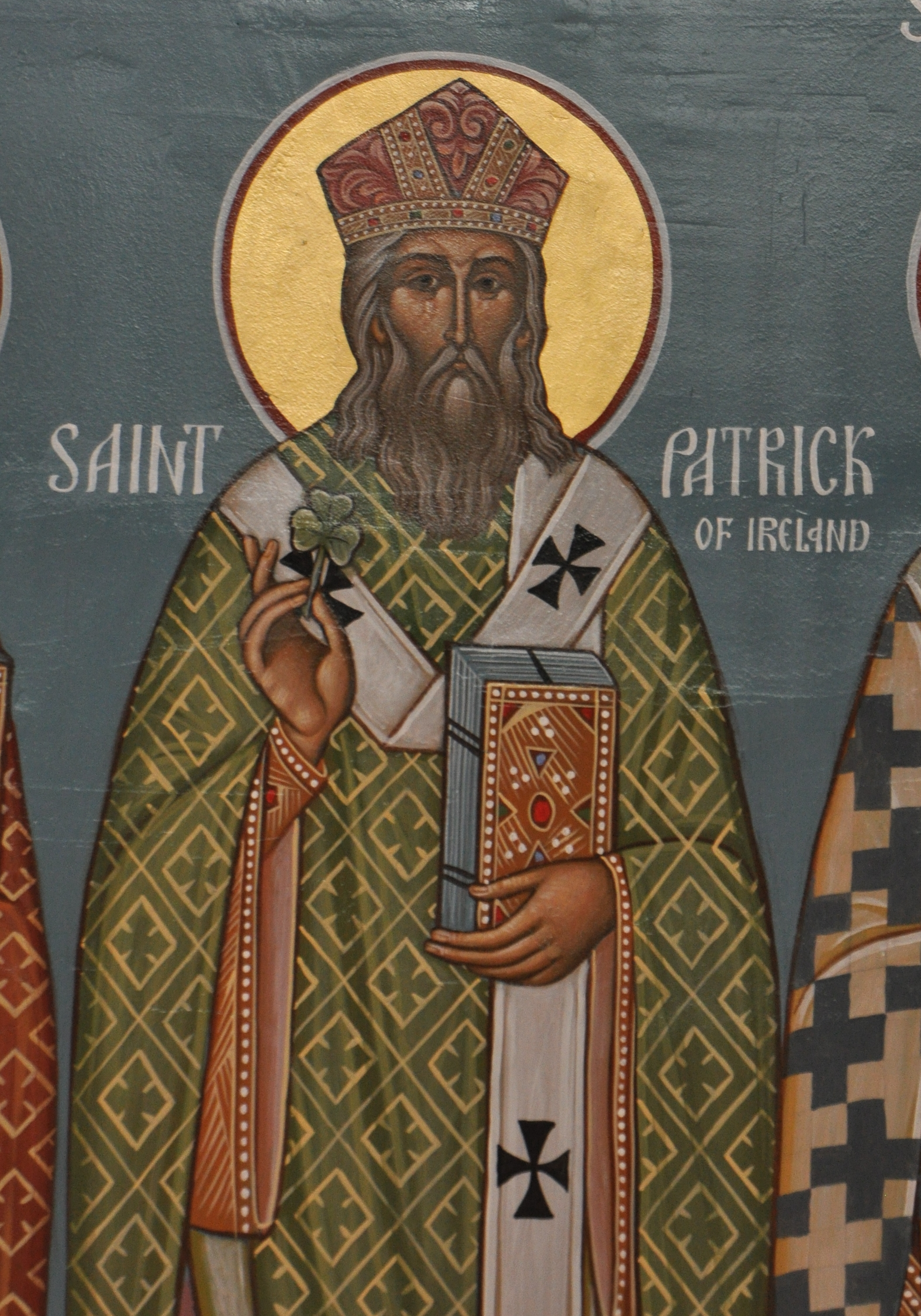 Icon of Saint Patrick from Christ the Saviour Church